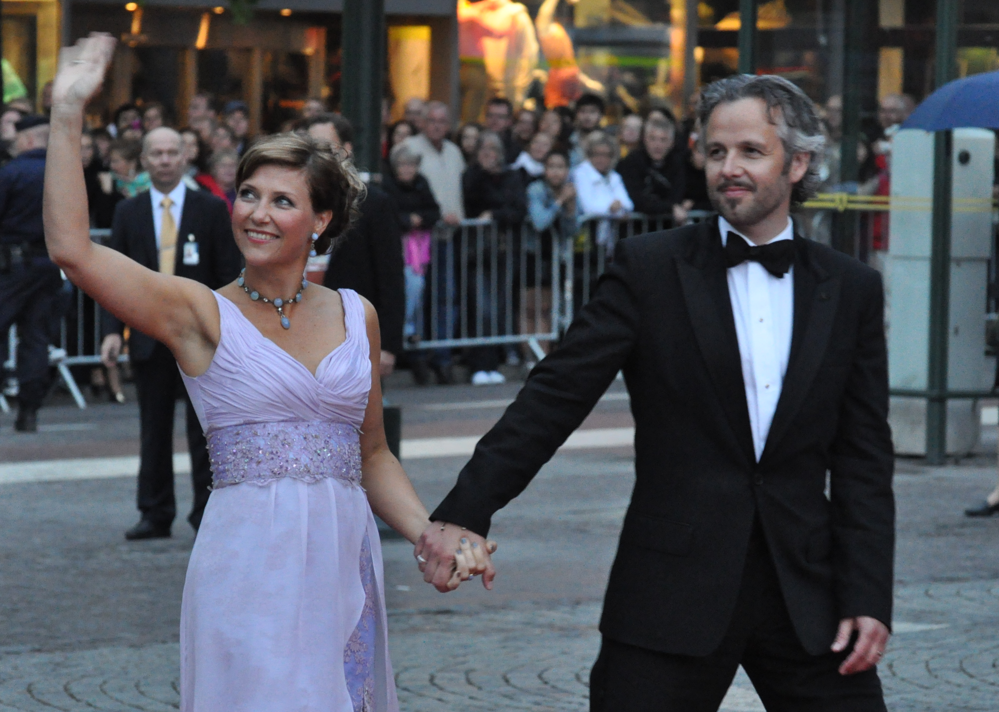 Wedding of Victoria, Crown Princess of Sweden, and Daniel Westling: Princess Märtha Louise and Ari Behn arrives to the Riksdag's Gala Performance at Konserthuset, Stockholm.